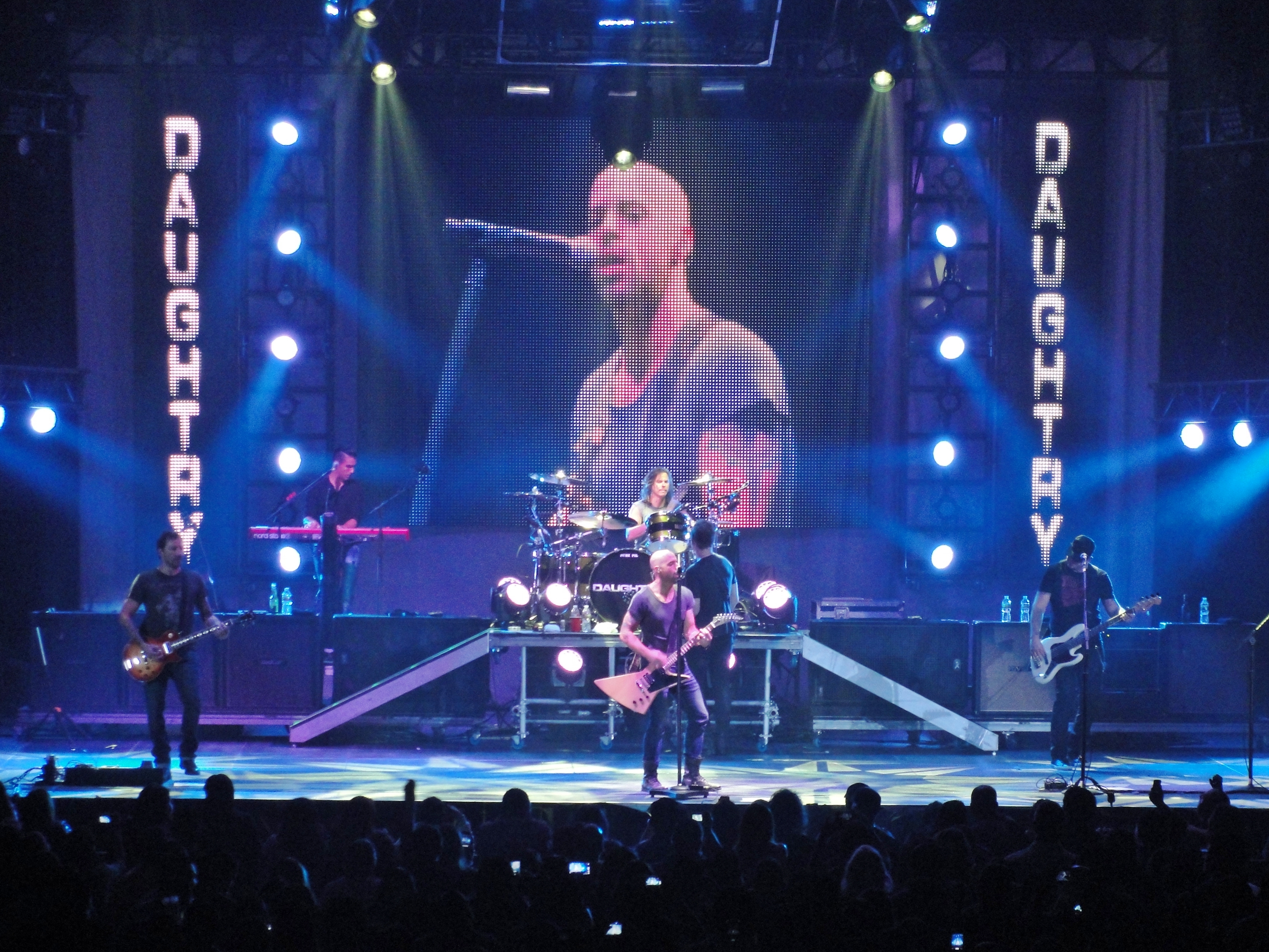 Daughtry live at Laredo Energy Arena in Laredo, Texas